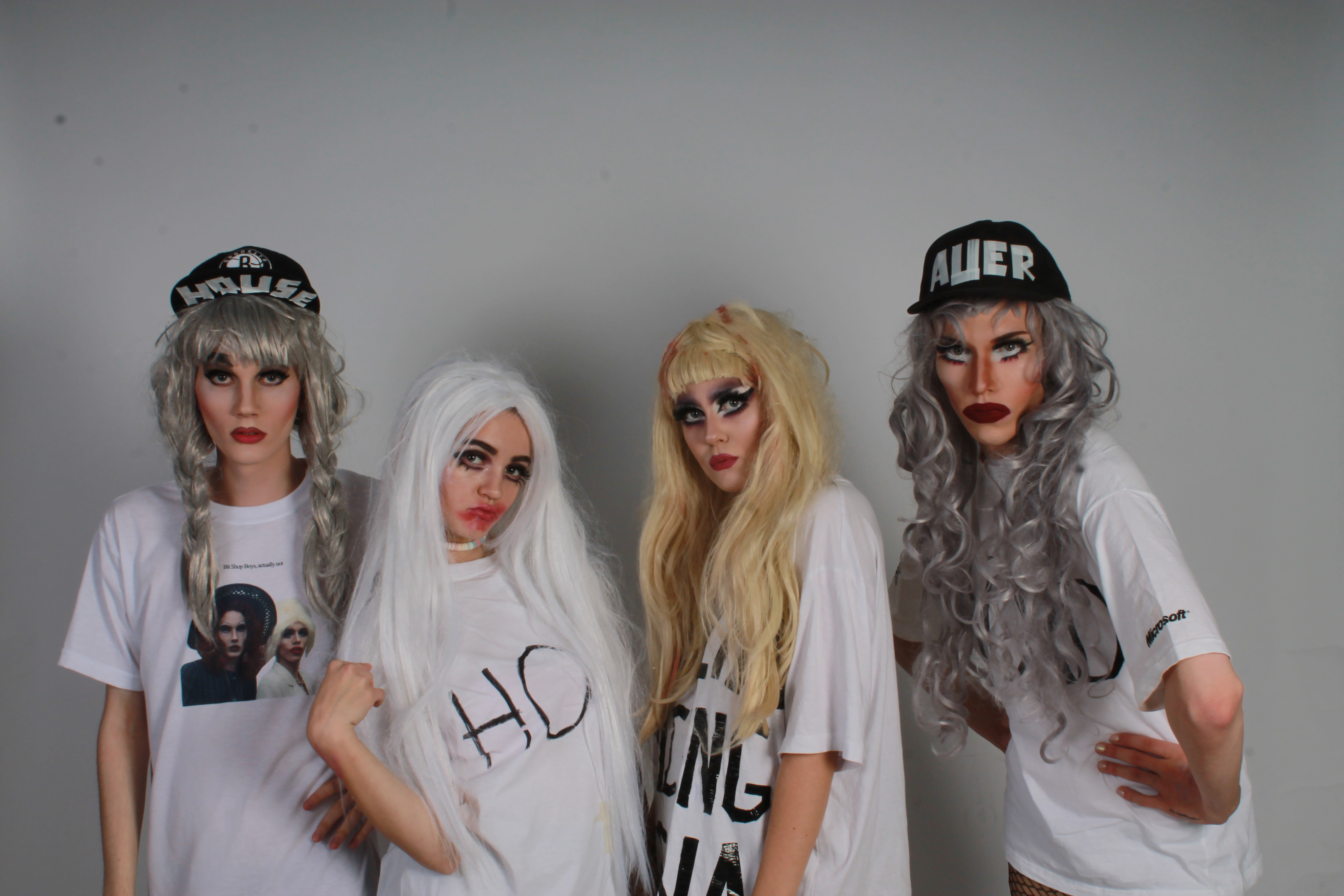 Finnish drag collective House of Auer